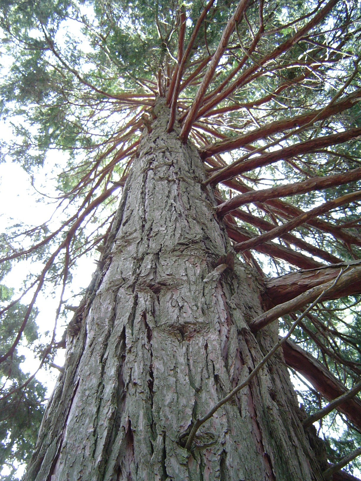 Calocedrus decurrens — Inscense cedar tree. Located in the San Jacinto Mountains in Southern California. Credits: Photographed April 21, 2003 and uploaded by user:Geographer.